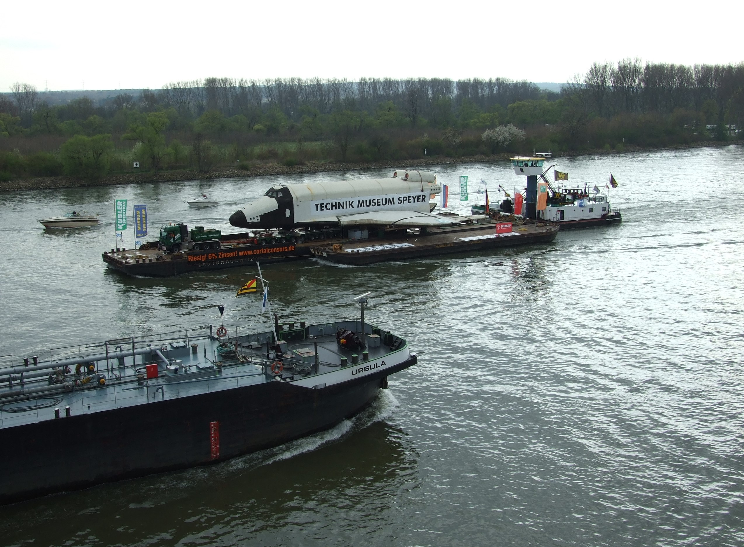 OK-GLI at rhine-river, ship-transport to the Technikmuseum Speyer